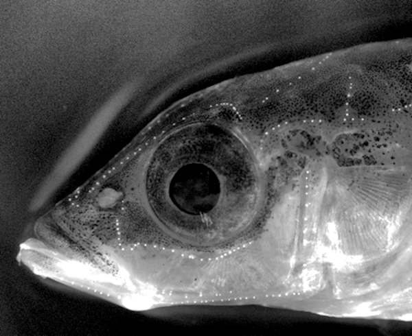 Head of a threespine stickleback (Gasterosteus aculeatus) stained with the fluorescent dye DASPEI to reveal clusters of sensory hair cells called neuromasts that make up the lateral line sensory system. Threespine sticklebacks from marine and freshwater habitats have evolved differences in neuromast number and patterning across the body. The genetic architecture underlying the evolution of the lateral line system in these fish was investigated with genetic linkage mapping. Image courtesy of Abigail Wark.